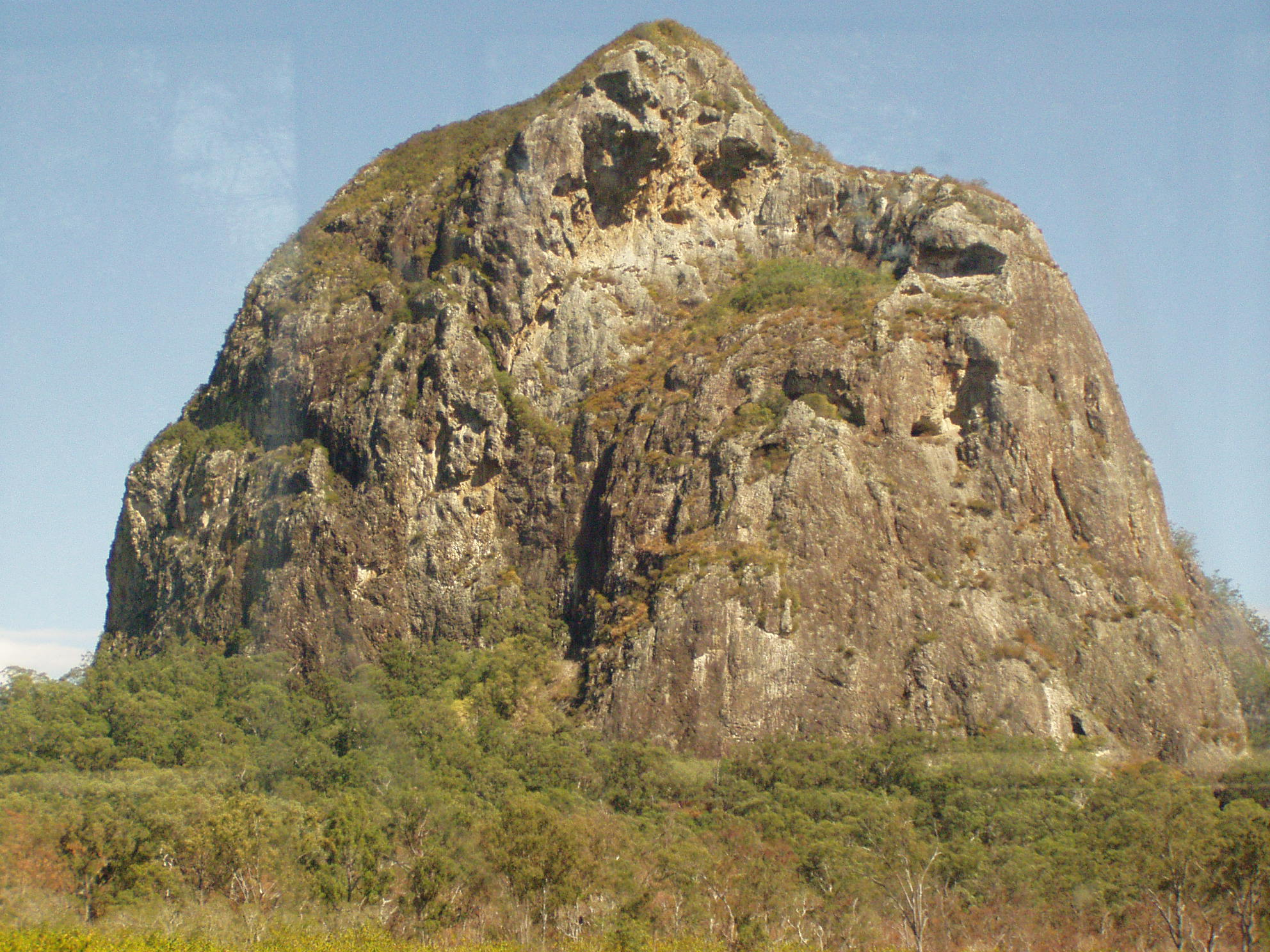 A photo of Mount Tibrogargan, taken from a moving train on the way to Australia ZooTibrogargan